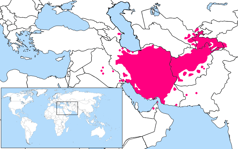 self-made using Map resources and based on a map of Iranian Languages on English Wikipedia.